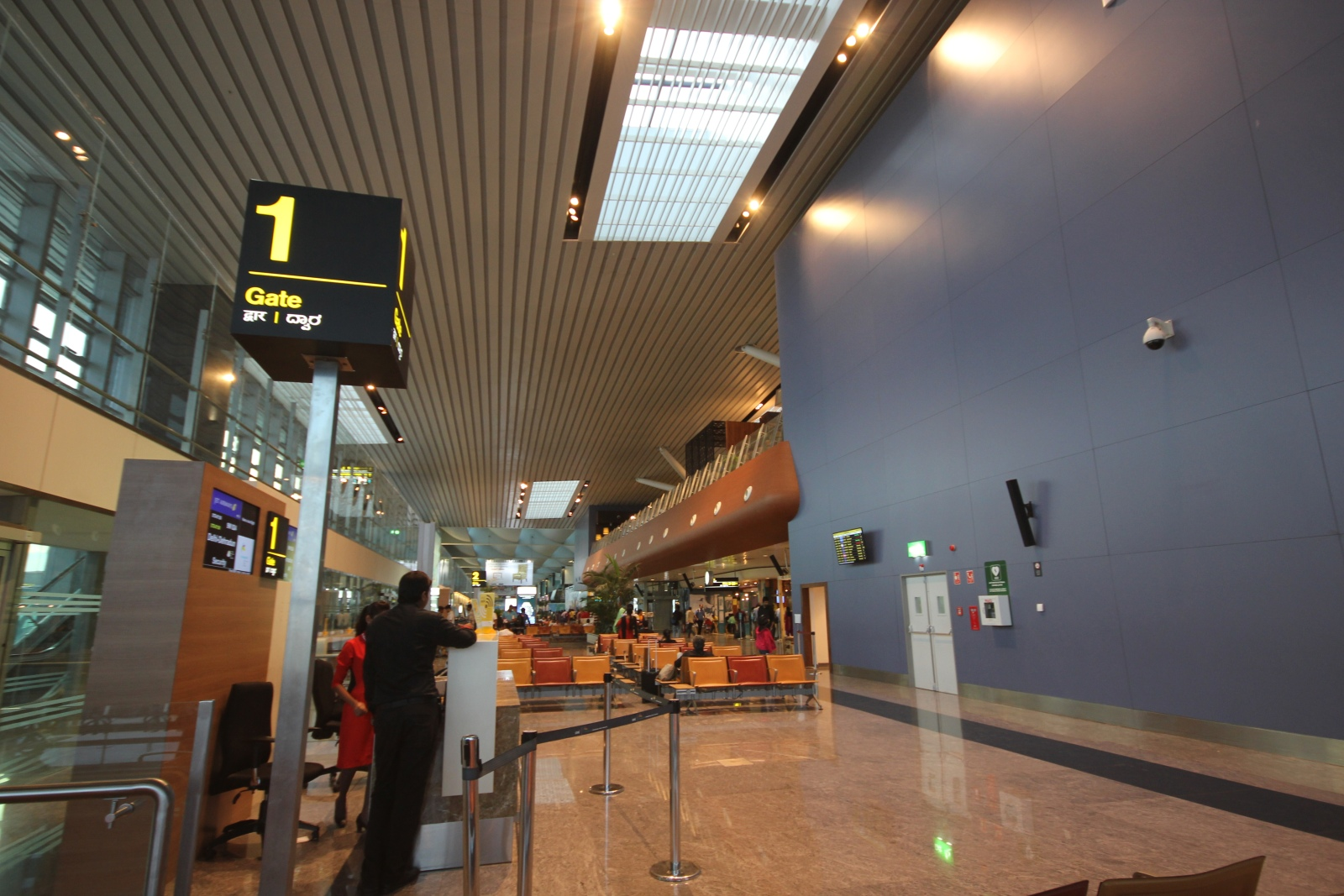 Near Gate 1, domestic departures side at Kempegowda Airport, Bangalore (BLR).